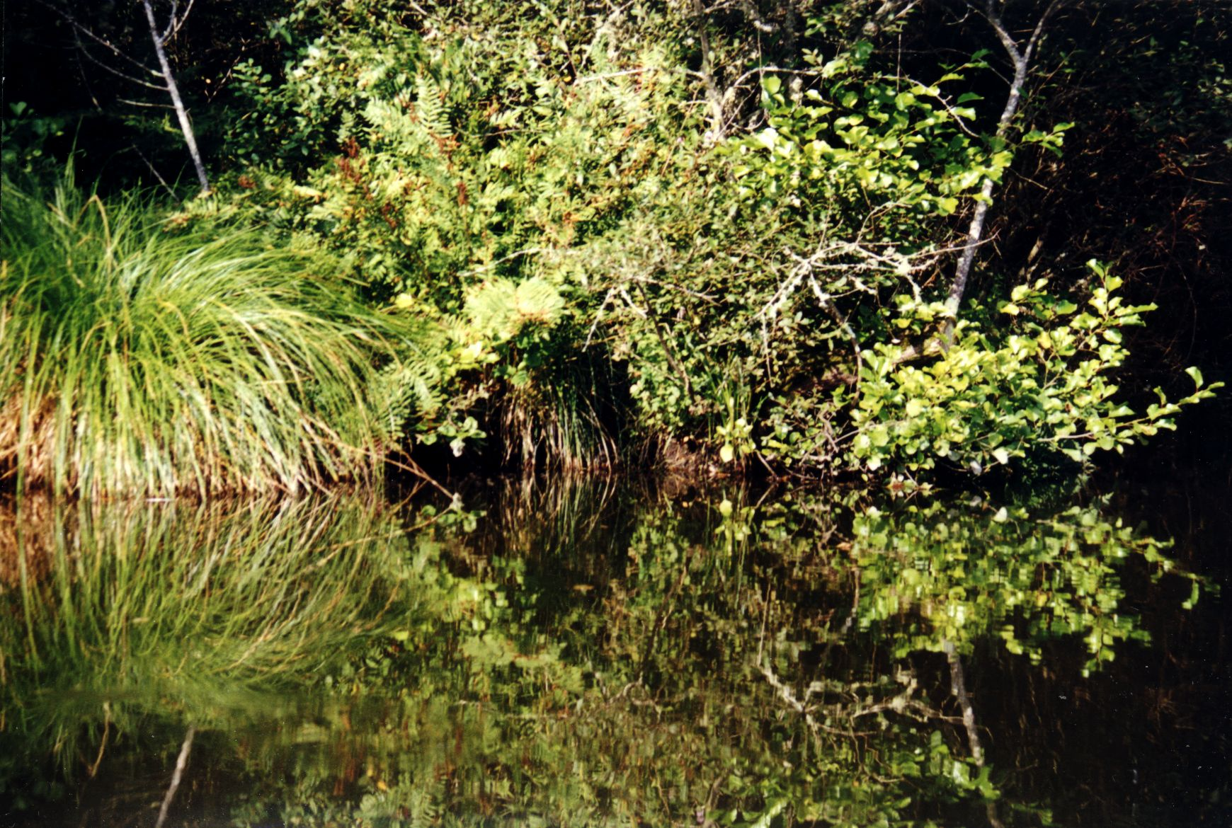 Vegetation on the stream